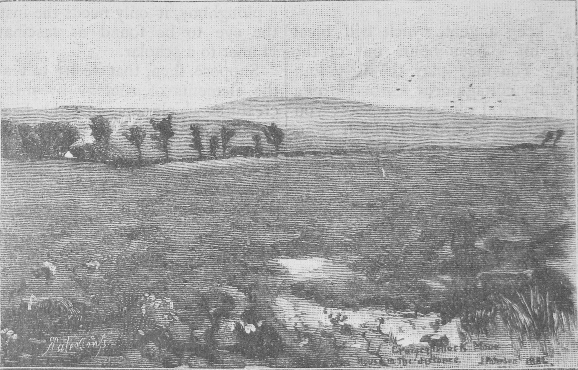 A sketch of the Craigenputtock moor with the house in the distance by James Paterson when he was staying there in 1882.